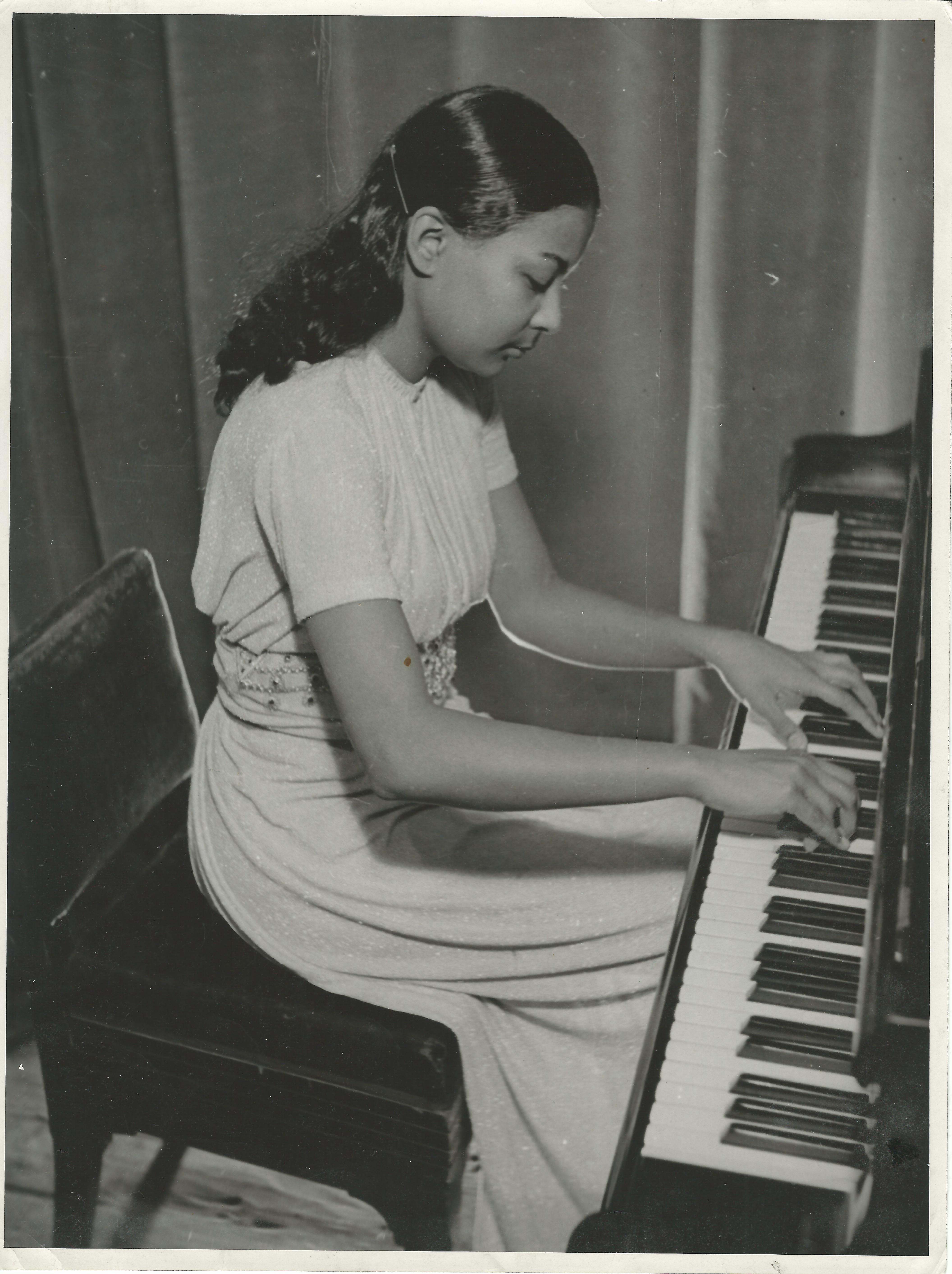 family picture of pianist Majoie Hajary (1921 - 2017)